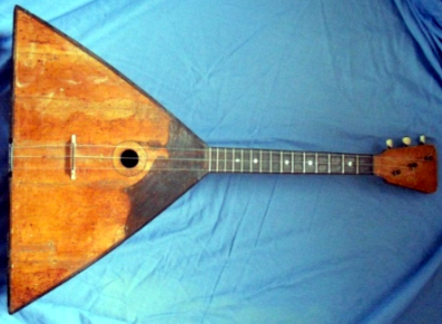 Isfl secunda balalaika